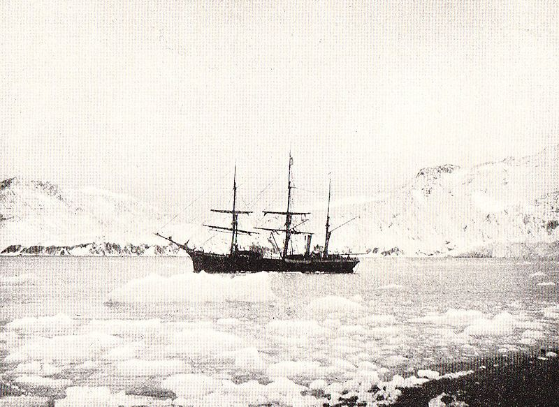 Photograph of Antarctica exploration vessel Antarctic